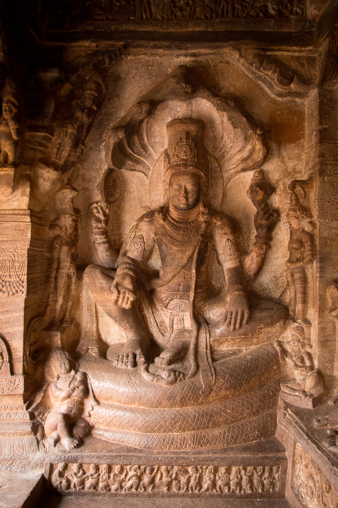 Group of Monuments at Badami